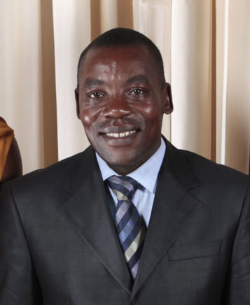 President Barack Obama and First Lady Michelle Obama pose for a photo during a reception at the Metropolitan Museum in New York with Gabriel Ntisezerana.